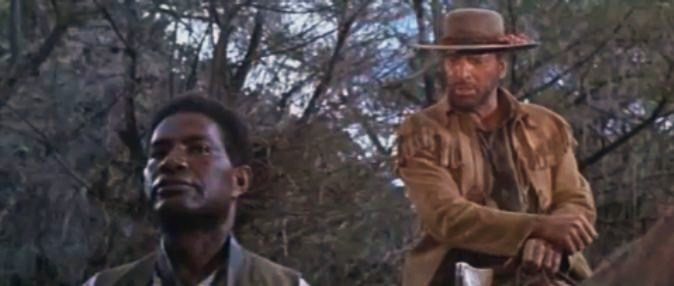 Ossie Davis (left) and Burt Lancaster in The Scalphunters (1968) - trailer (cropped screenshot)